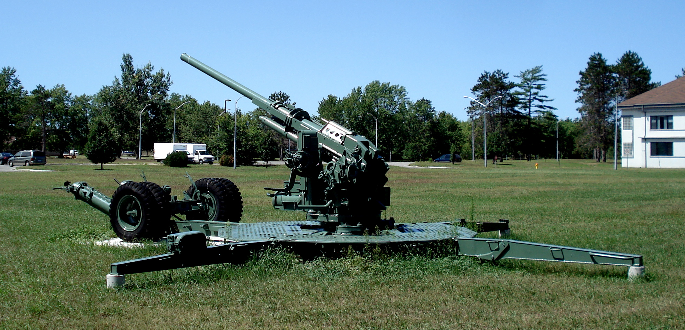 American 90 mm M1 anti-aircraft gun, displayed on the grounds of CFB Borden (Base Borden Military Museum).